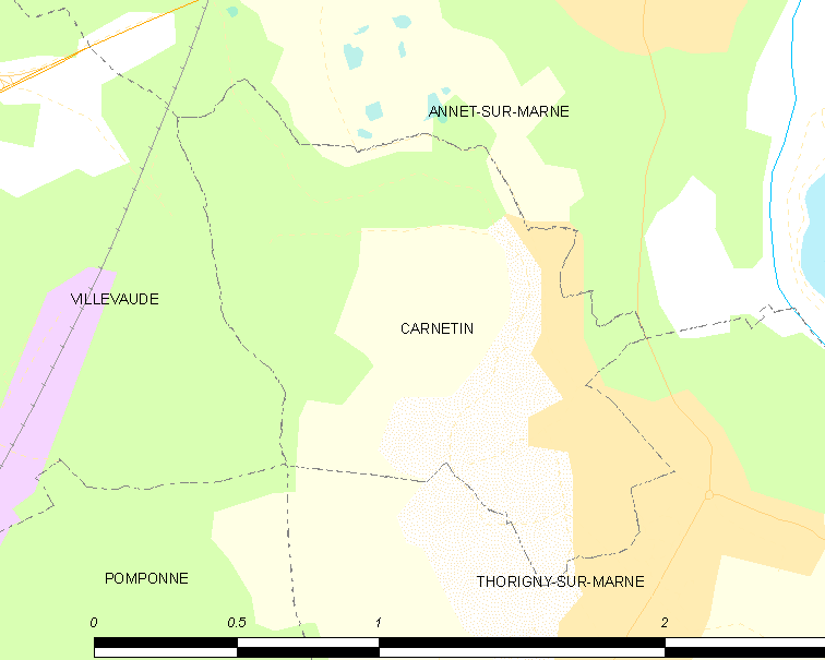 Map of French municipality Carnetin